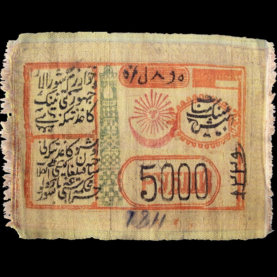 Khorezm banknote in rag (silk) - 5000 rubles In 1920-1923 (gregorian calendar) the Khorezm Republic issued Khiva silk banknotes. In those years, the banknotes were printed in four denominations: 500, 1000, 2000 and 5000 rubles. Each of them has some inscription in Uzbek Arabic script: "banknotes (literally -"clothe money ") of Khorezm People's Soviet Republic"; "Forgery of bank notes prosecuted by Revolution"; "This assignat is property of the state".